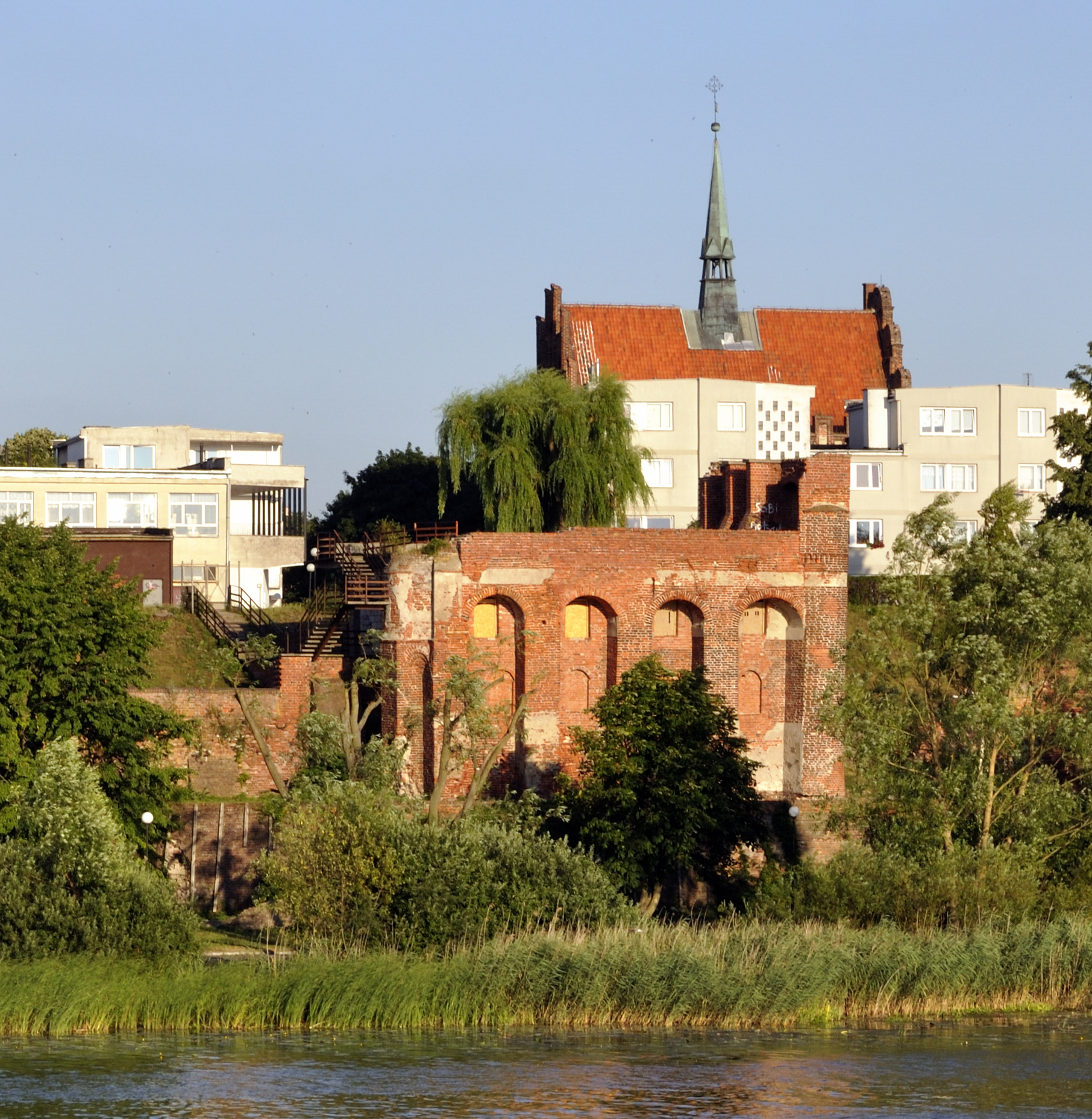 Picture taken in Malborg after Wikimania 2010 conference.